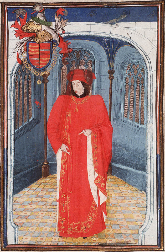 Statuts, Ordonnances et Armorial de l'Ordre de la Toison d'Or (Statutes, Ordonnances and armorial of the Order of the Golden Fleece) Place of origin, date: Southern Netherlands; 1473. Added sections: Southern Netherlands; 1478 or shortly after and 1491 or shortly after Material: Vellum, ff. 86, 249x187 (167x106) mm, 23 lines, littera cursiva (lettre bourguignonne). French. Binding: 18th-century brown leather Decoration: 1 full-page miniature (170x115 mm) with border decoration; 92 miniatures (185/155x120/100 mm); 1 historiated initial (80x90 mm) with border decoration; decorated initials with border decoration (ff., Added section: miniatures ; 4 drawings for miniatures (not finished) Provenance: Presented in 1473 by Gilles Gobet, King of Arms of the Order of the Golden Fleece, to Charles the Bold, Duke of Burgundy and the other Knights during the Chapter of the Order held at Valenciennes; Treasure of the Golden Fleece, Brussls; taken away by the Treasurer C.-F. Humyn (d. 1735) or his daughter C.Ch. de Corte; by legacy to her daughter M.-L. de Corte, wife of Ph.-E. de Poederlé; purchased in 1781 at the Poederlé sale by G.-J- Gérard of Brussels; acquired in 1832 as part of the Gérard collection (no. A 27)